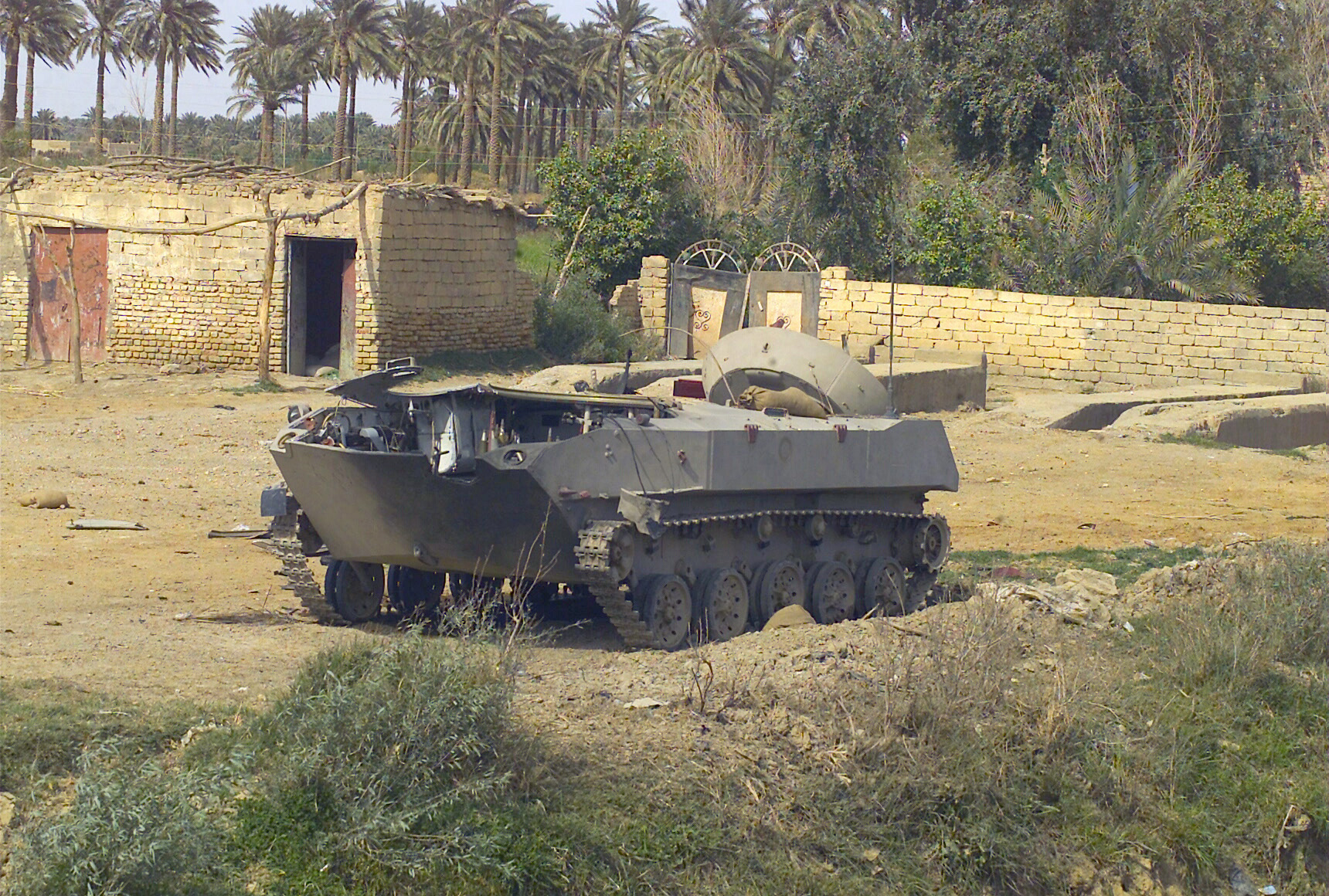 A destroyed Iraqi BMD-1 Infantry Fighting Vehicle sits near an abandoned structure in Northern Iraq, during Operation IRAQI FREEDOM.